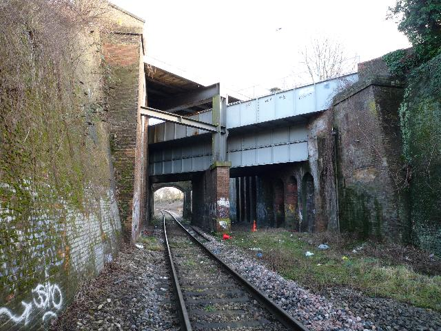 The Three Bridges The lower pale blue cast-iron trough carries the canal over the railway track. The upper, narrower, pale blue cast-iron trough carries the towing path. The Three Bridges is a unique transport intersection, designed and built by Isambard Kingdom Brunel. It was to be his last project before he died on 15th September 1859 just two months after its completion. The correct name for it should be Windmill Bridge - named after the Southall Mill, which stood on the south-western side of the original canal bridge which was first built in the 1790's when the canal was cut. J.M.W. Turner painted this windmill in 1806. File:Joseph_Mallord_William_Turner_014.jpg Known locally as The Three Bridges, the name is a misnomer as there are in fact only two bridges - the road bridge over the canal and the canal bridge over the railway. The canal is conveyed through an 8 ft cast-iron trough over the railway, with the road on a brick & cast-iron girder bridge above. The Three Bridges was constructed as a result of the Brentford Branch line being built to connect the Great Western Railway at Southall to the docks at Brentford. Which was opened in July 1859. Brunel chose the location for the Three Bridges intersection where the canal was already crossed by Windmill Lane. The Three Bridges has been designated a Scheduled Ancient Monument by English Heritage. There is a 3 ton weight and 6' 6" width restrictions on the road bridge.